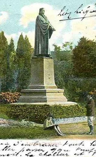 Statue of Martin Luther in Bielsko-Biała, Poland in 1901.